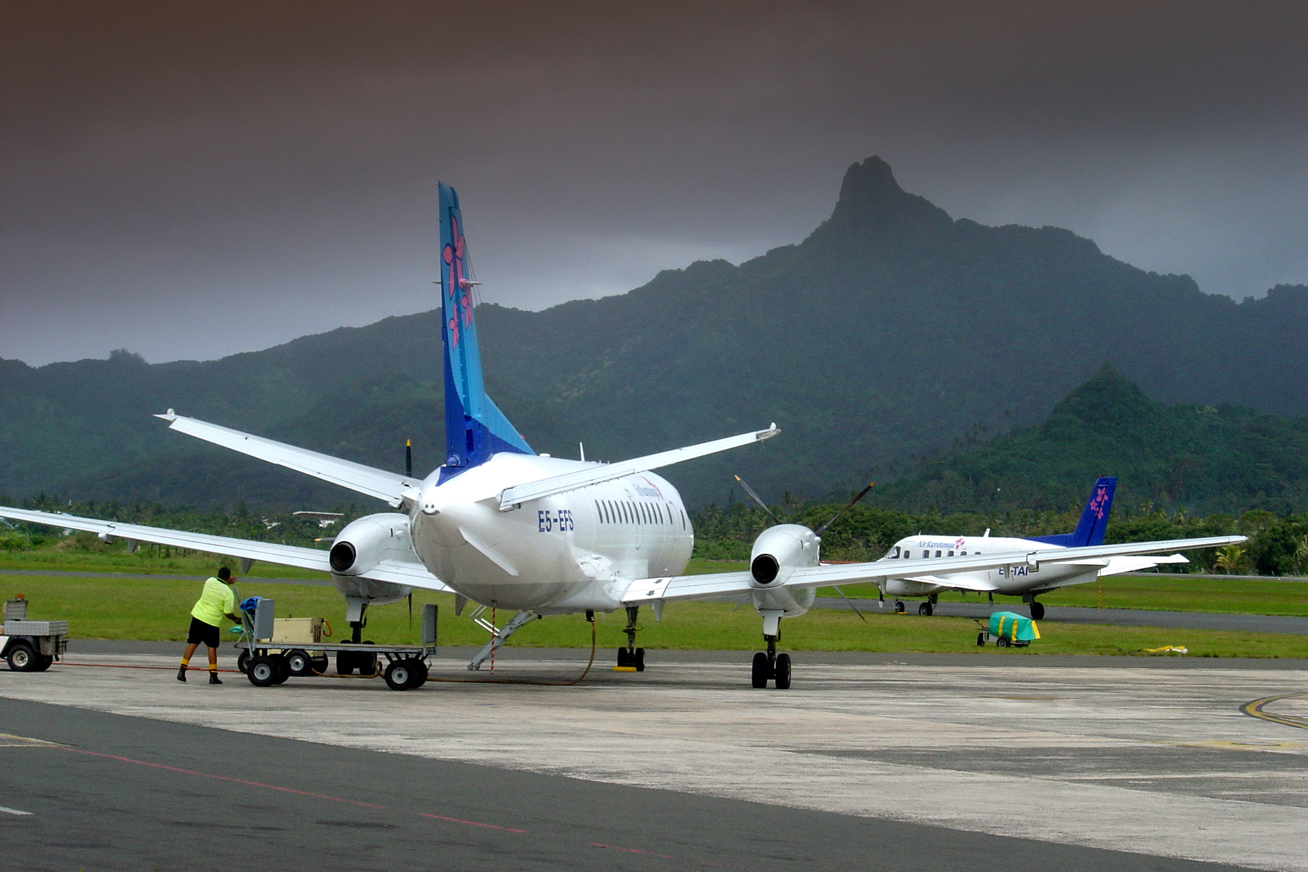 Two Air Rarotonga airliners on an overcast afternoon at Rarotonga International Airport Air Rarotonga Saab 340A (E5-EFS) Air Rarotonga Embraer EMB-110P1 Bandeirante (E5-TAI)